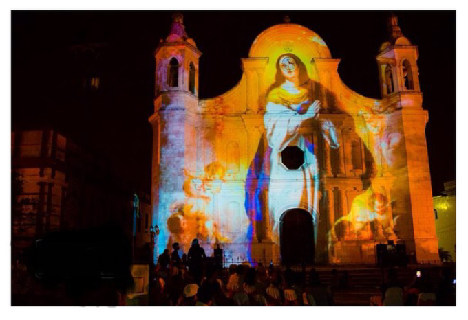 Santa Rosa Copan aniversary in 2014